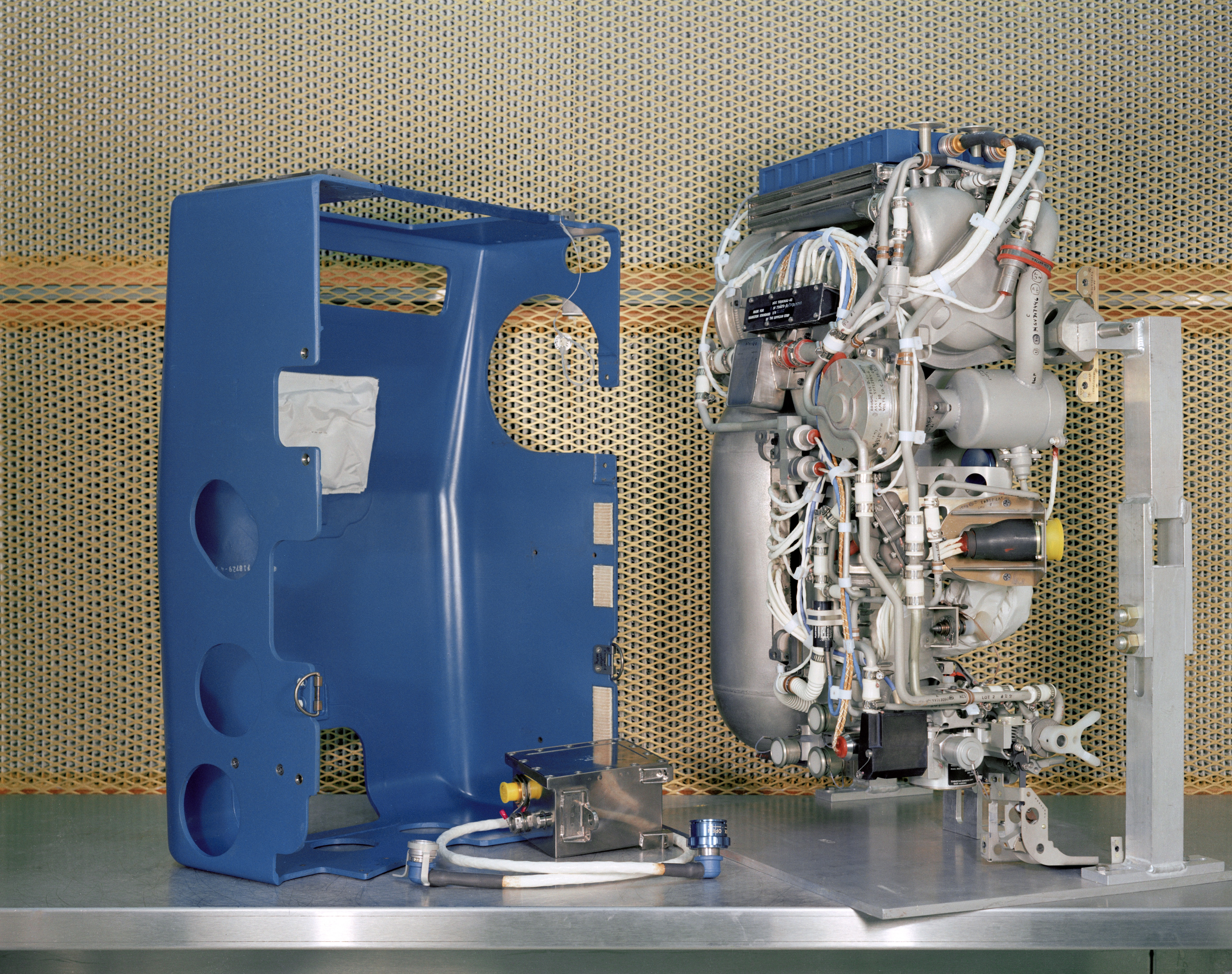 With its exterior removed, the Apollo portable life support system (PLSS) can be easily studied. The PLSS is worn as a backpack over the Extravehicular Mobility Unit (EMU), a multi-layered spacesuit used for outside-the-spacecraft activity. JSC photographic frame no. S68-34582 is a close-up view of the working parts of the PLSS.